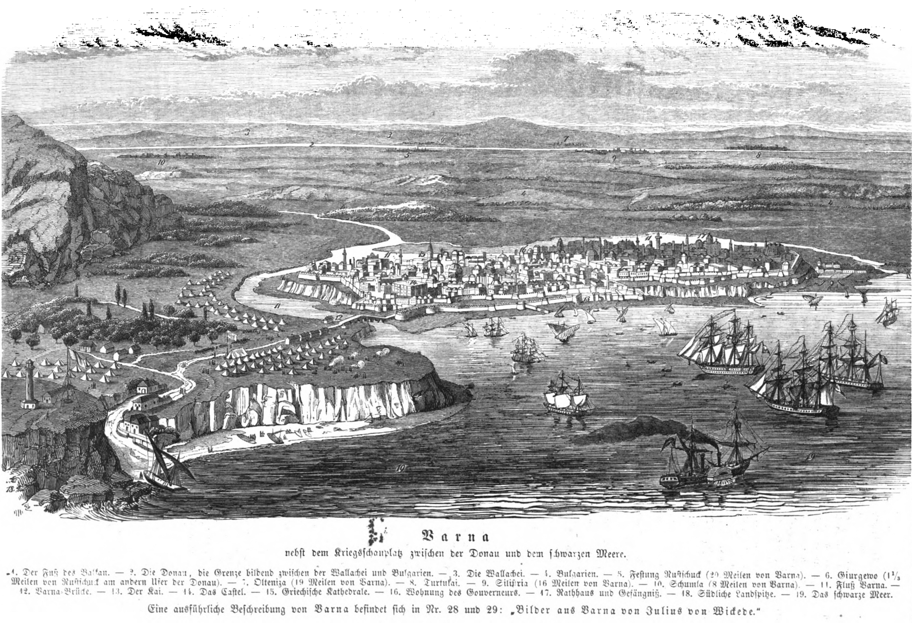 caption: "Varna nebst dem Kriegsschauplatz zwischen der Donau und dem schwarzen Meere. 1. Der Fuß des Balkan. – 2. Die Donau, die Grenze bildend zwischen der Wallachei und Bulgarien. – 3. Die Wallachei. – 4. Bulgarien. – 5. Festung Rustschuck (20 Meilen von Varna). – 6. Giurgewo (1 1/3, Meilen von Rustschuk am andern Ufer der Donau). – 7. Olleniza (19 Meilen von Varna). – 8. Turtukai. – 9. Ziluria (16 Meilen von Varna). – 10. Schumla (8 Meilen von Barna). – 11. Fluß Varna.– 12. Varna-Brücke. – 13. Der Kai. – 14. Das Castel. 15. Griechische Kathedrale. – 16. Wohnung des Gouverneurs. – 17. Rathhaus und Gefängniß. – 18. Südliche Landspitze. – 19. Das schwarze Meer. Eine ausführliche Beschreibung von Varna befindet sich in Nr. 28 und 29: „Bilder aus Varna von Julius von Wickede.“"